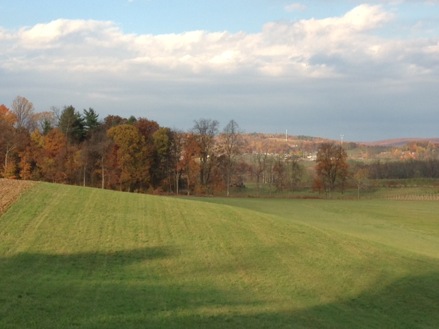 Fall scene outside of the Village of Gardners, Pennsylvania